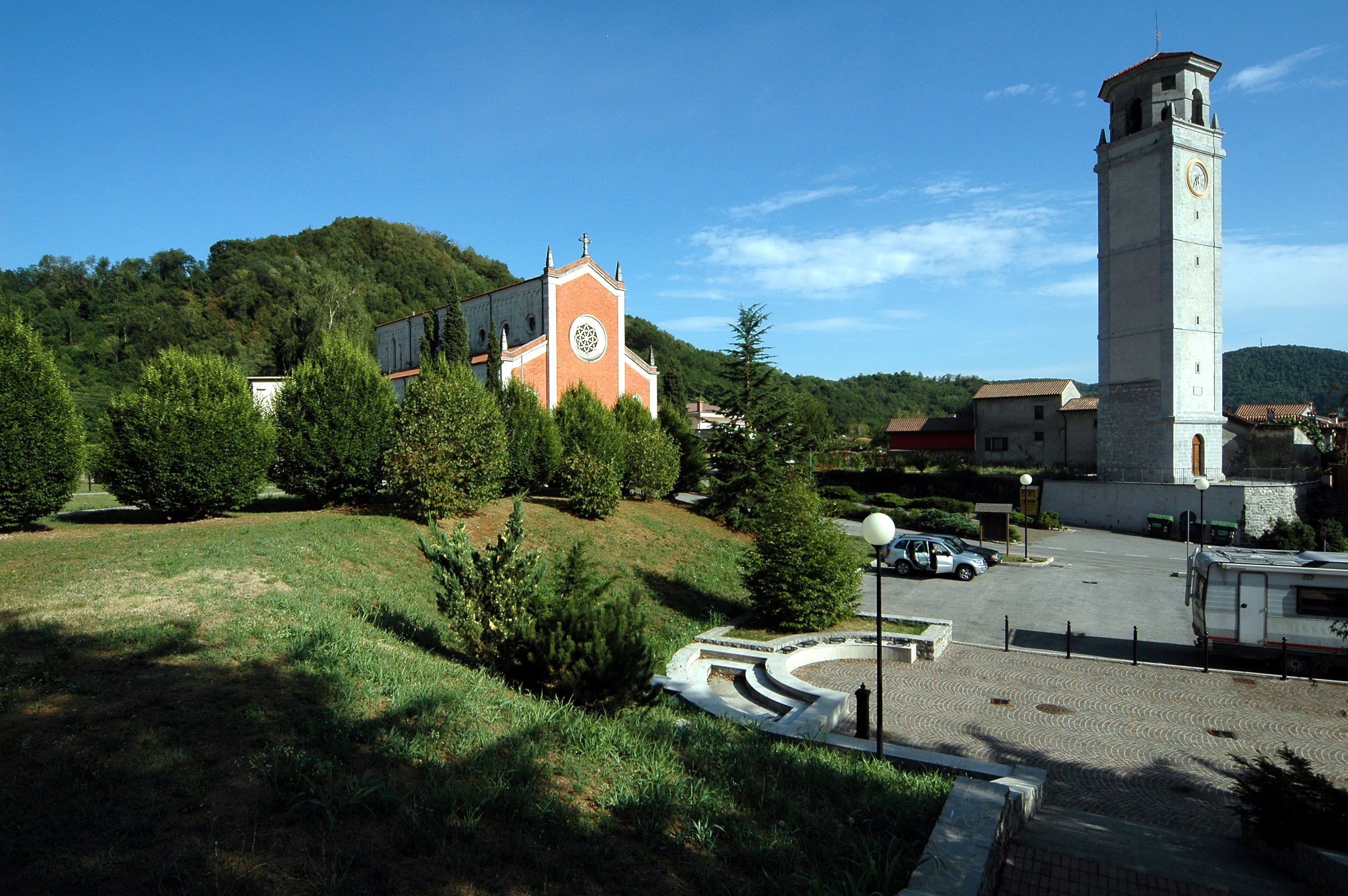 Church and steeple of San Pietro al Natisone